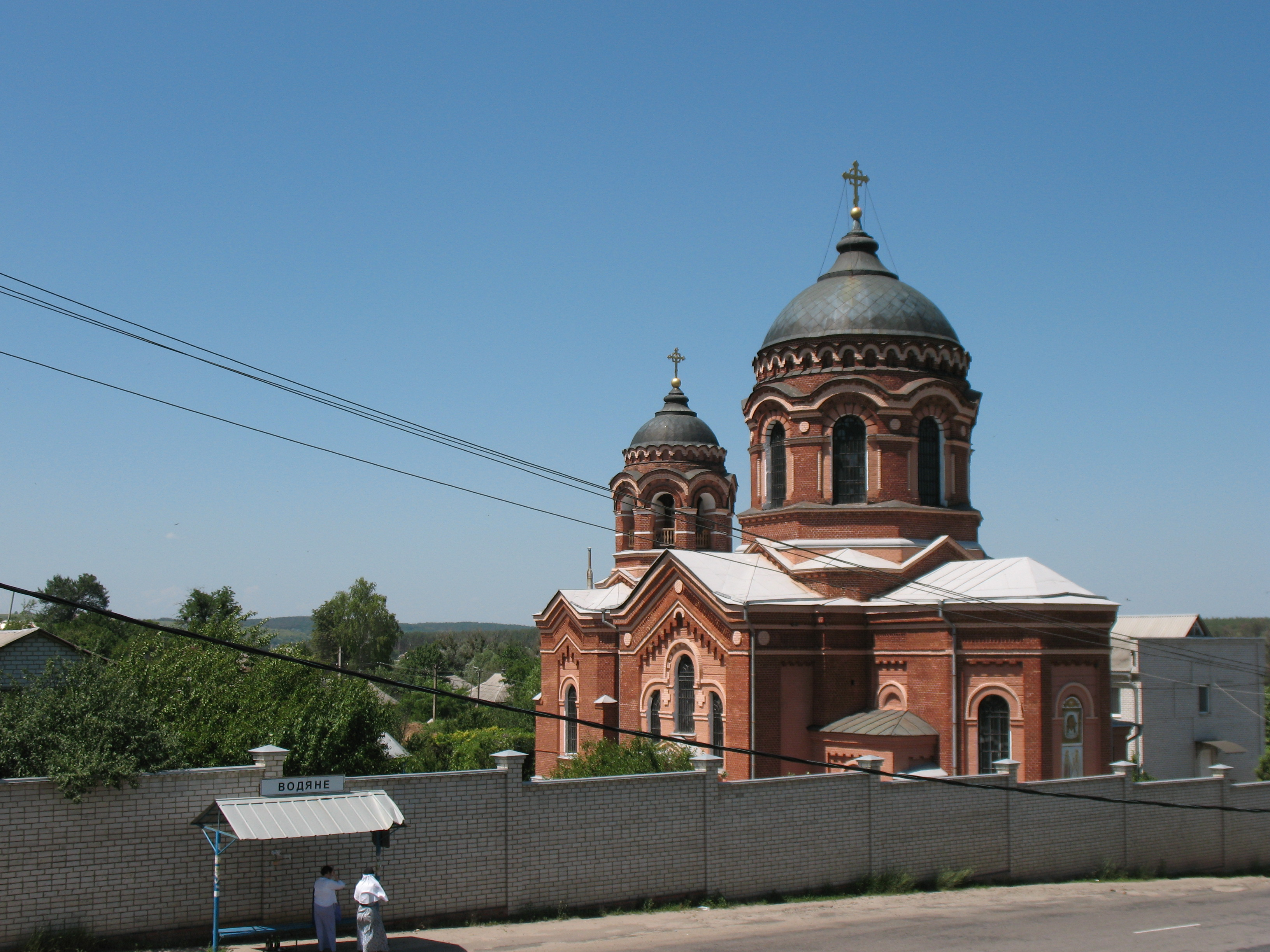 Kharkov Oblast. Borisoglebsk Monastery in Vodianoe village.